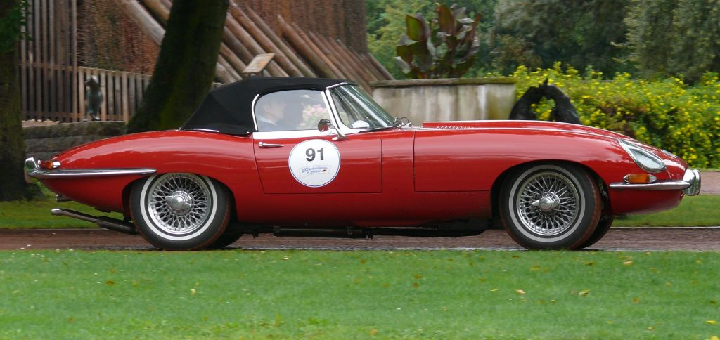 Jaguar E-Type Serie 1 OTS